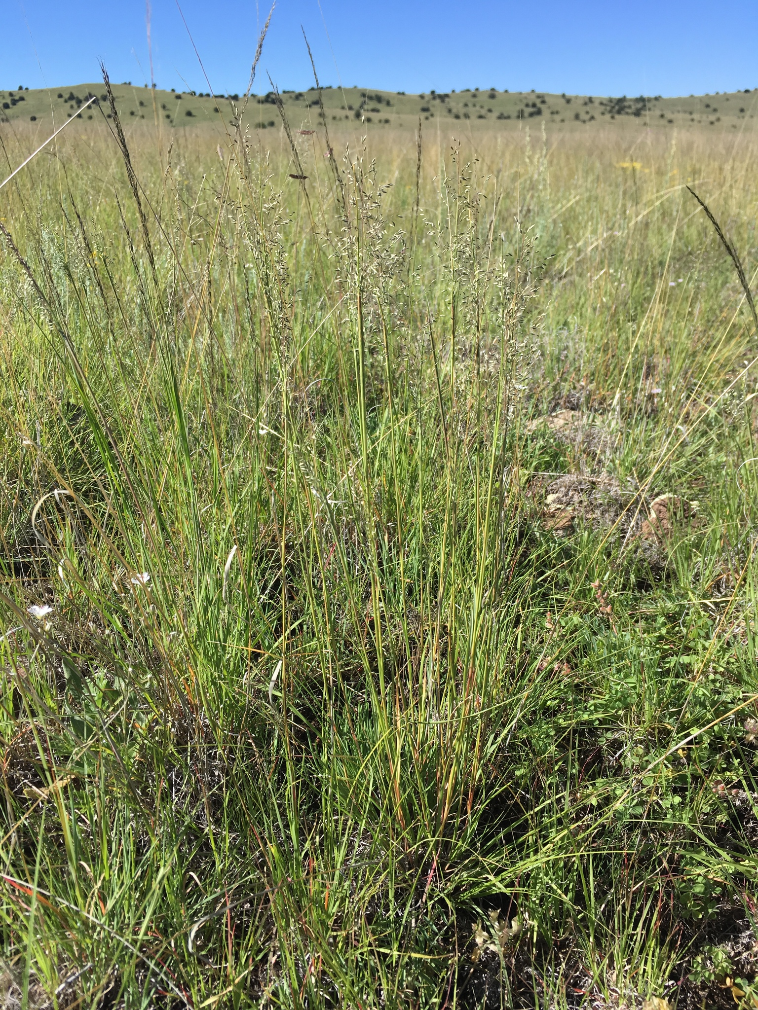 Blepharoneuron tricholepis - Pine Dropseed. Species of grass